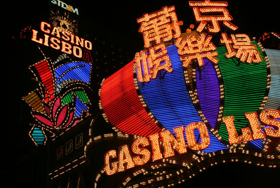 The Entrance to Stanley Ho's Lisboa Casino at night